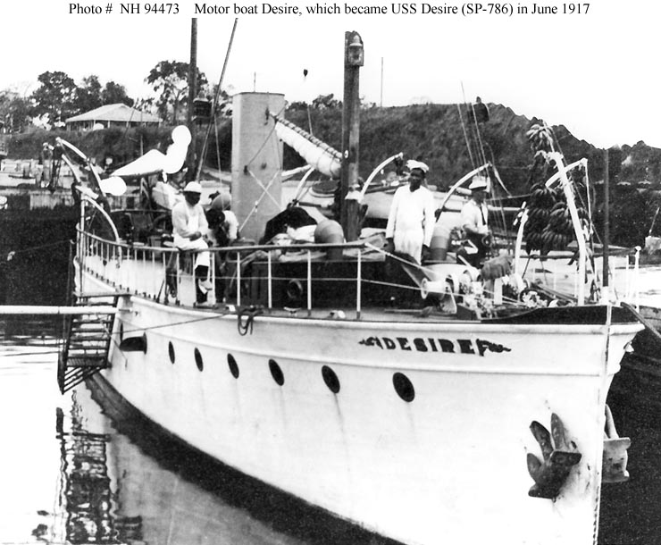 The private motorboat Desire, probably in a Caribbean port, prior to her United States Navy service as the patrol vessel